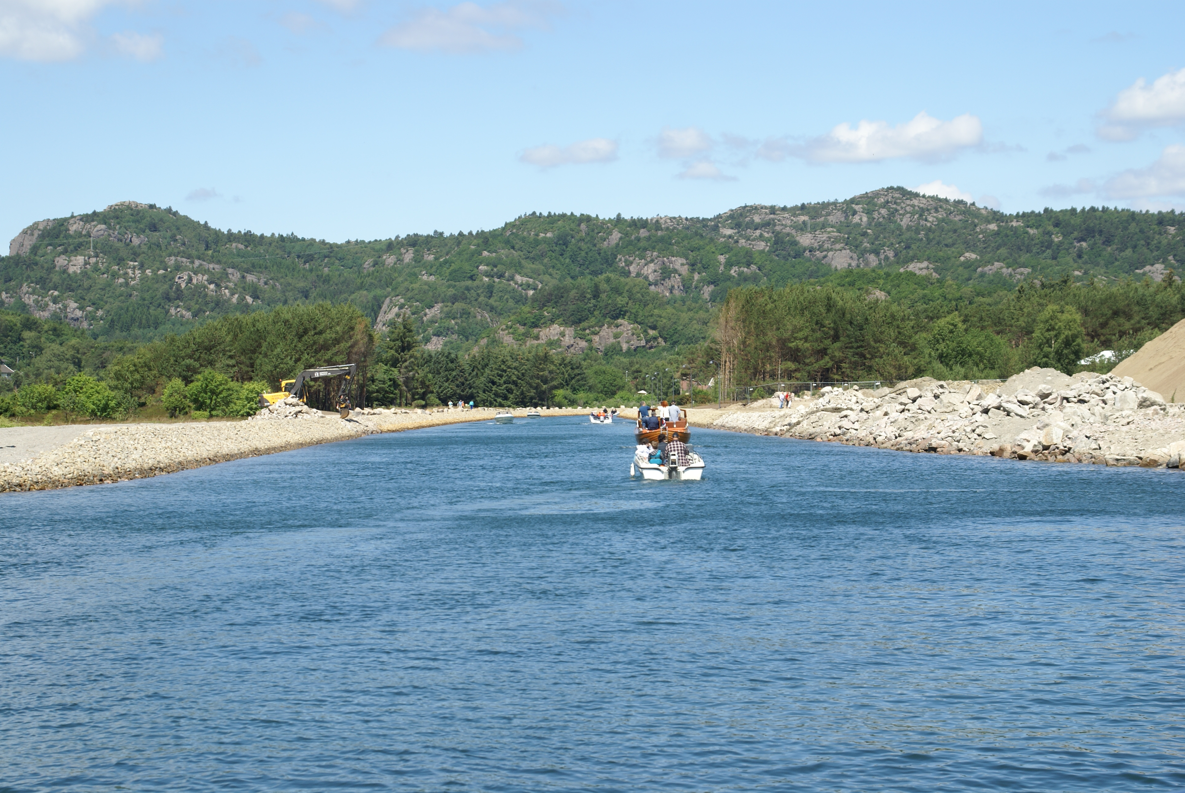 View from entrance, south